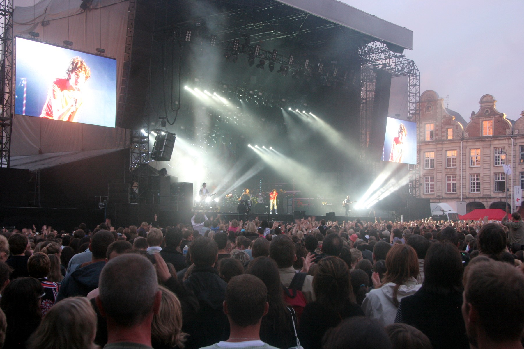 Mika at the Main Square Festival in 2008